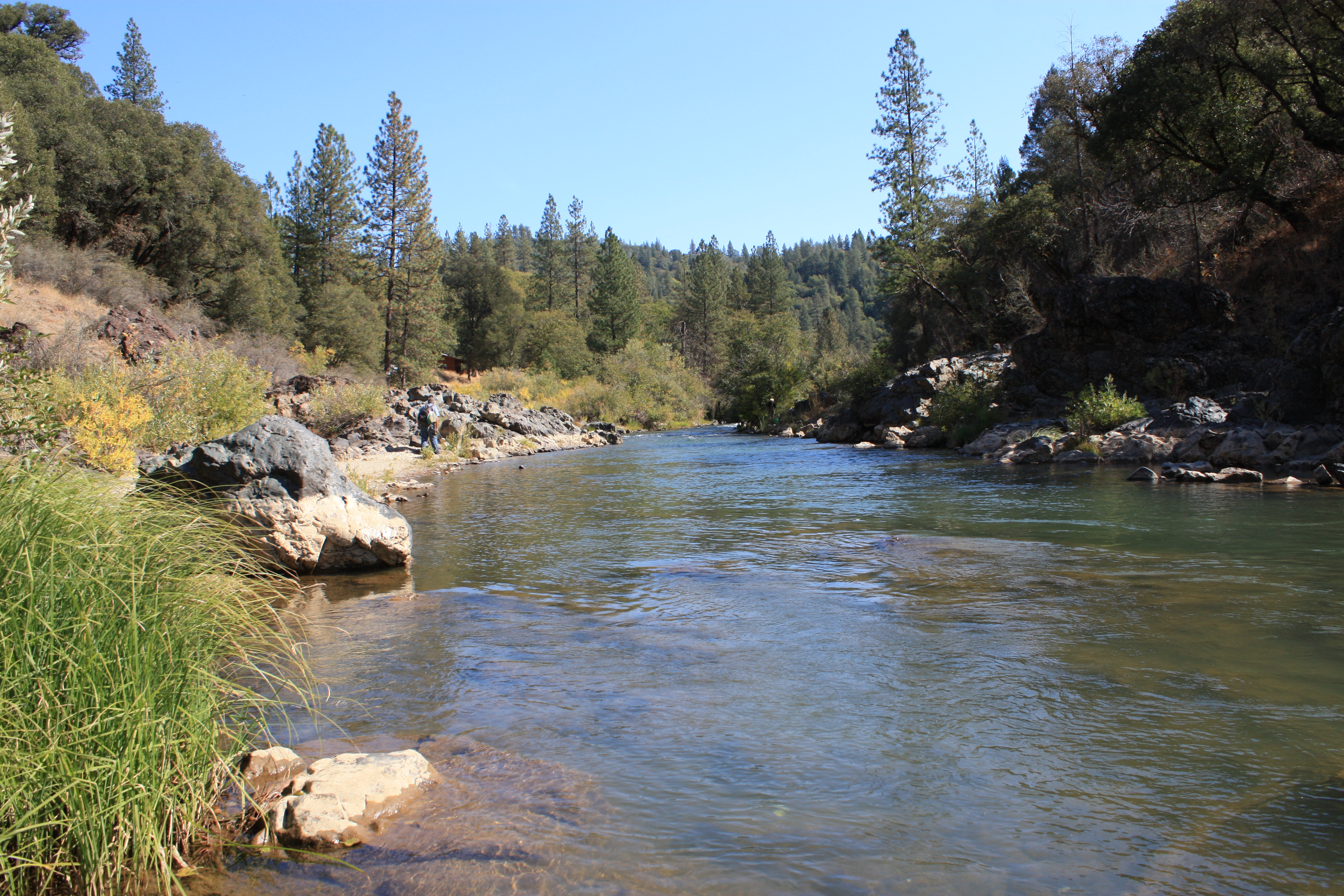 The Bear River, a tributary of the Feather River, northern California